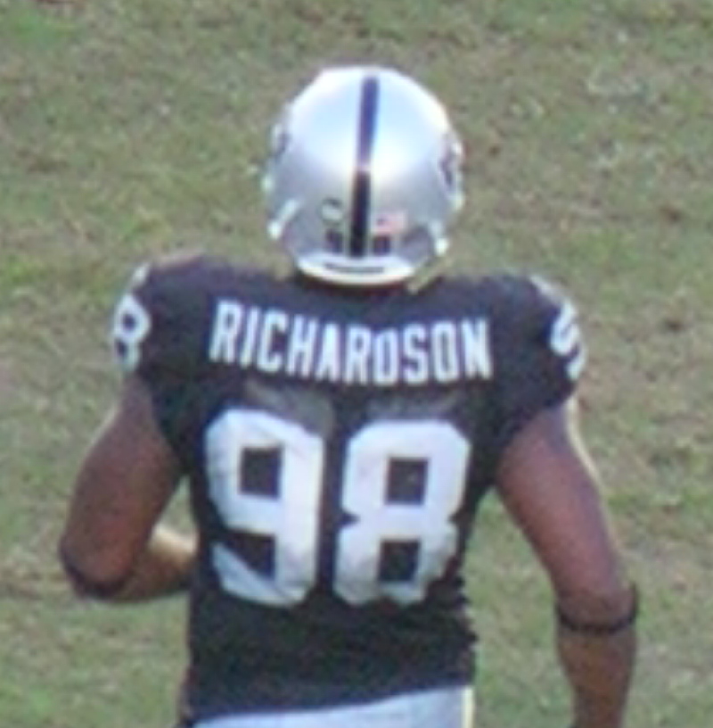 Oakland Raiders defense end Jay Richardson during a home game against the Atlanta Falcons. The Falcons won 24-0.